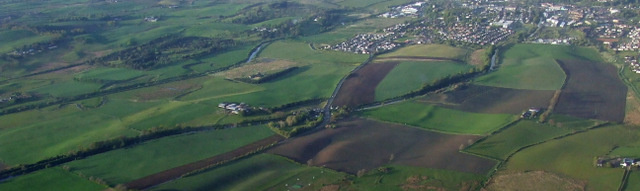 Antonine Wall and Glasgow Bridge from the air